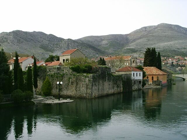 Trebinje, Bosnia and Herzegovina